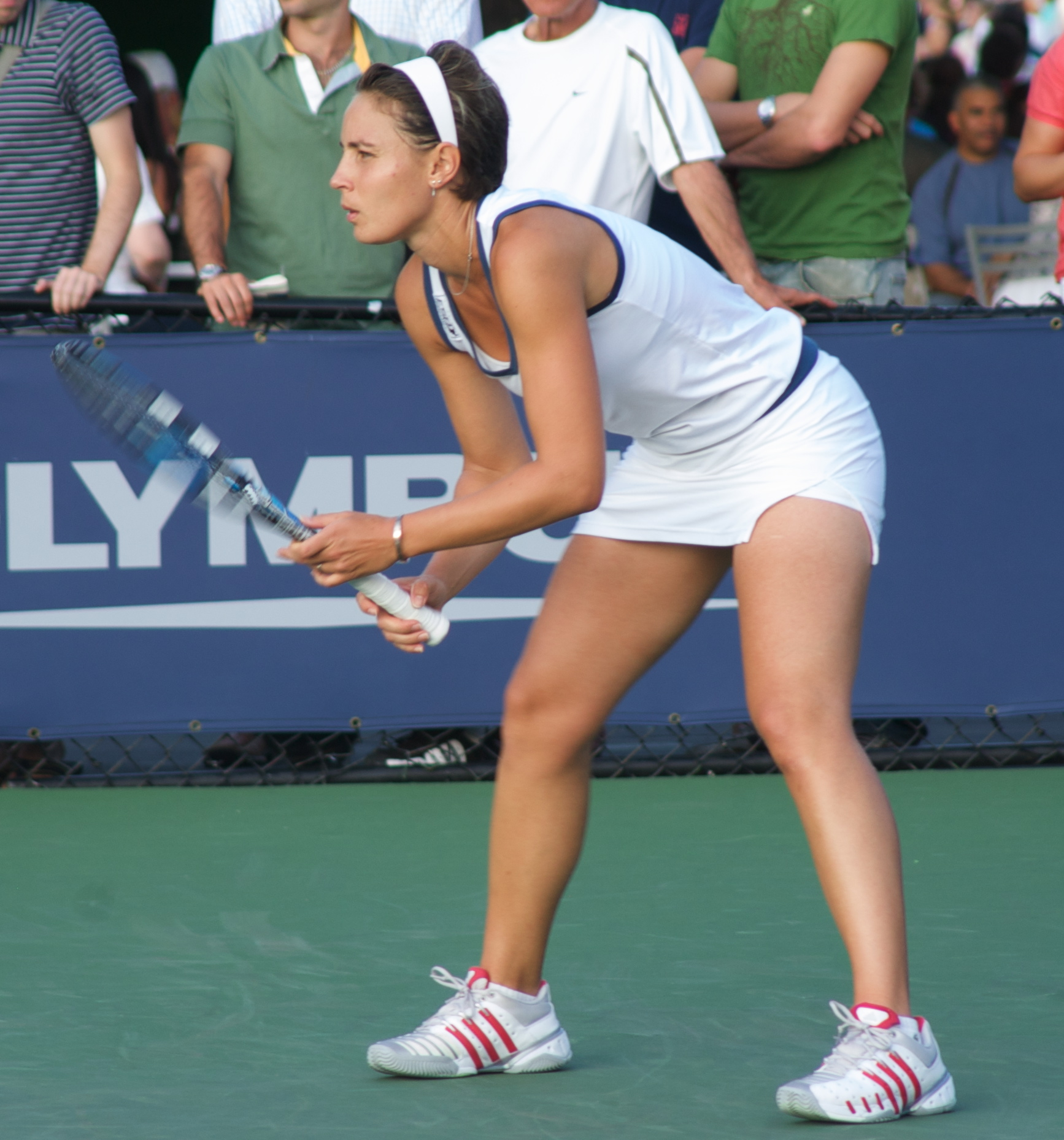 Severine Bremond at the 2008 U.S. Open - Women's Singles